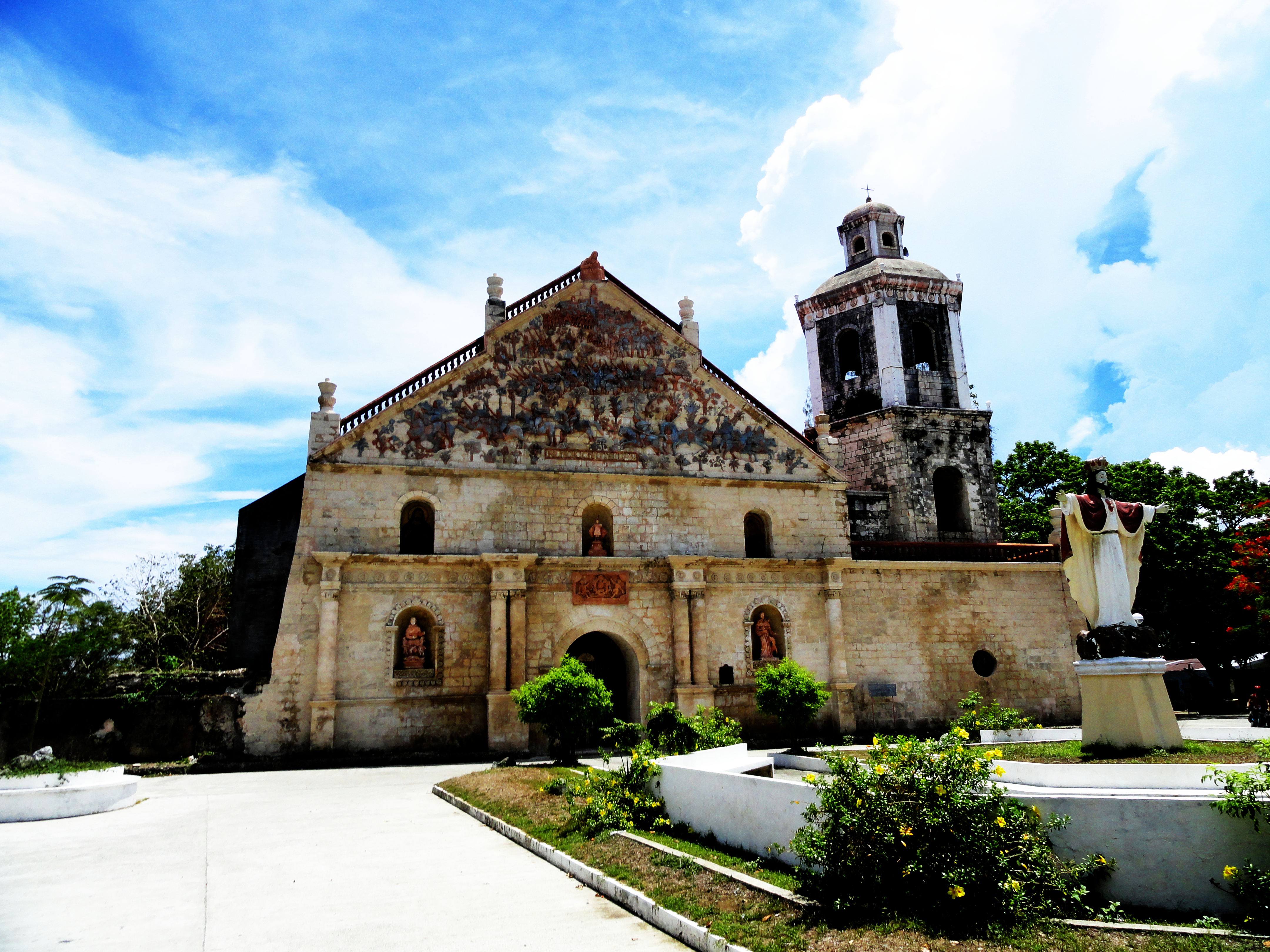 San Joaquin Church